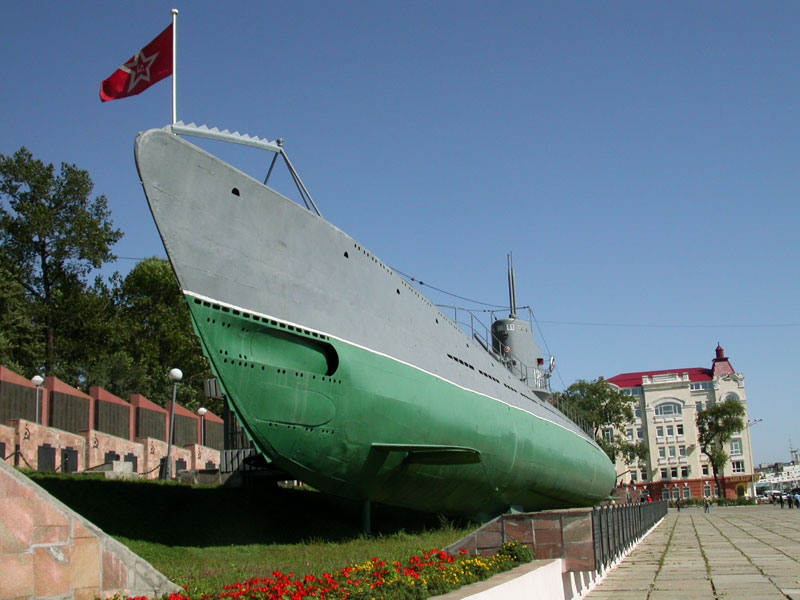 Memorial in Vladivostok. Soviet submarine S-56 of World War II